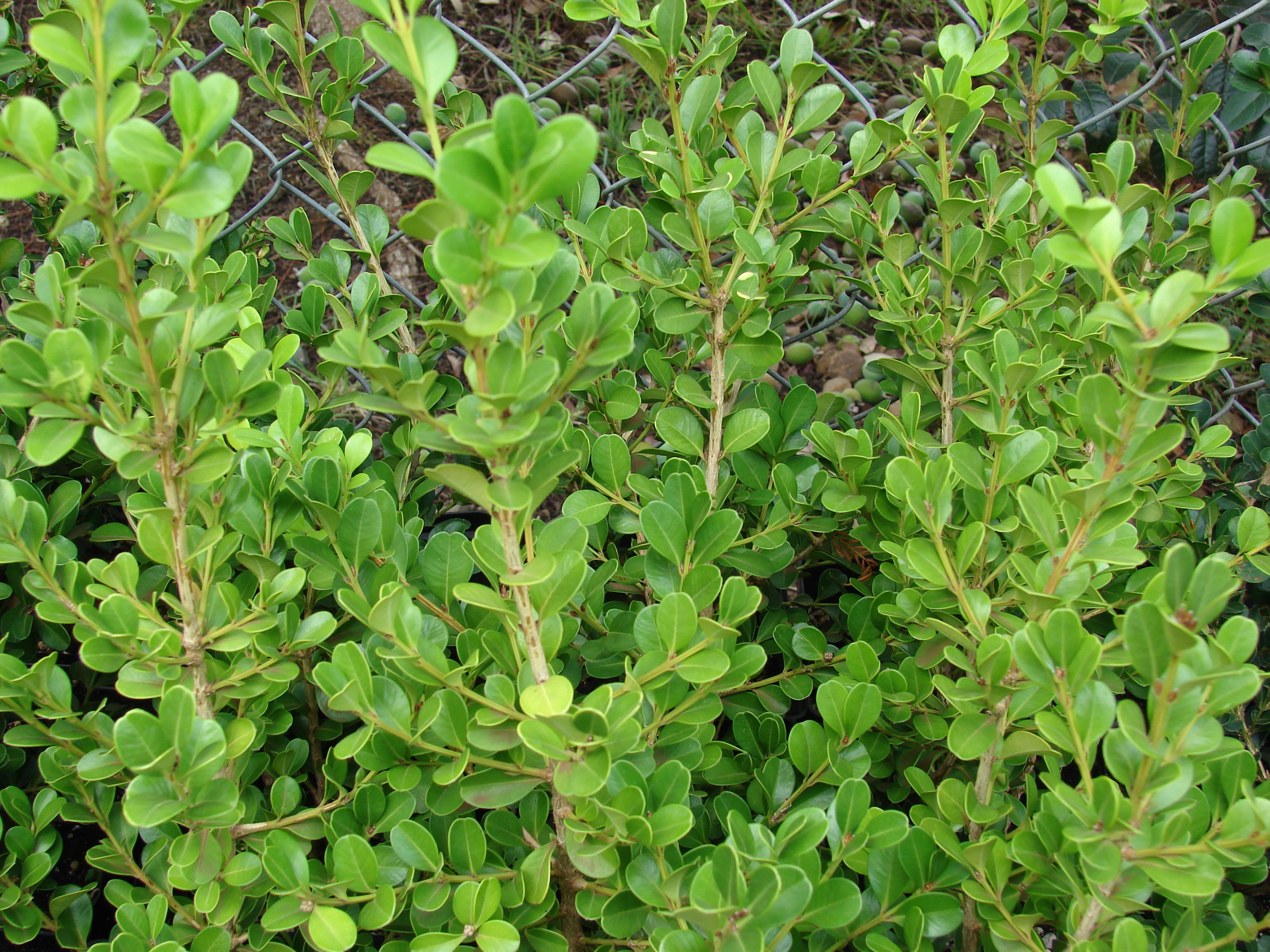 Buxus sempervirens (habit). Location: Maui, Kula Ace Hardware and Nursery